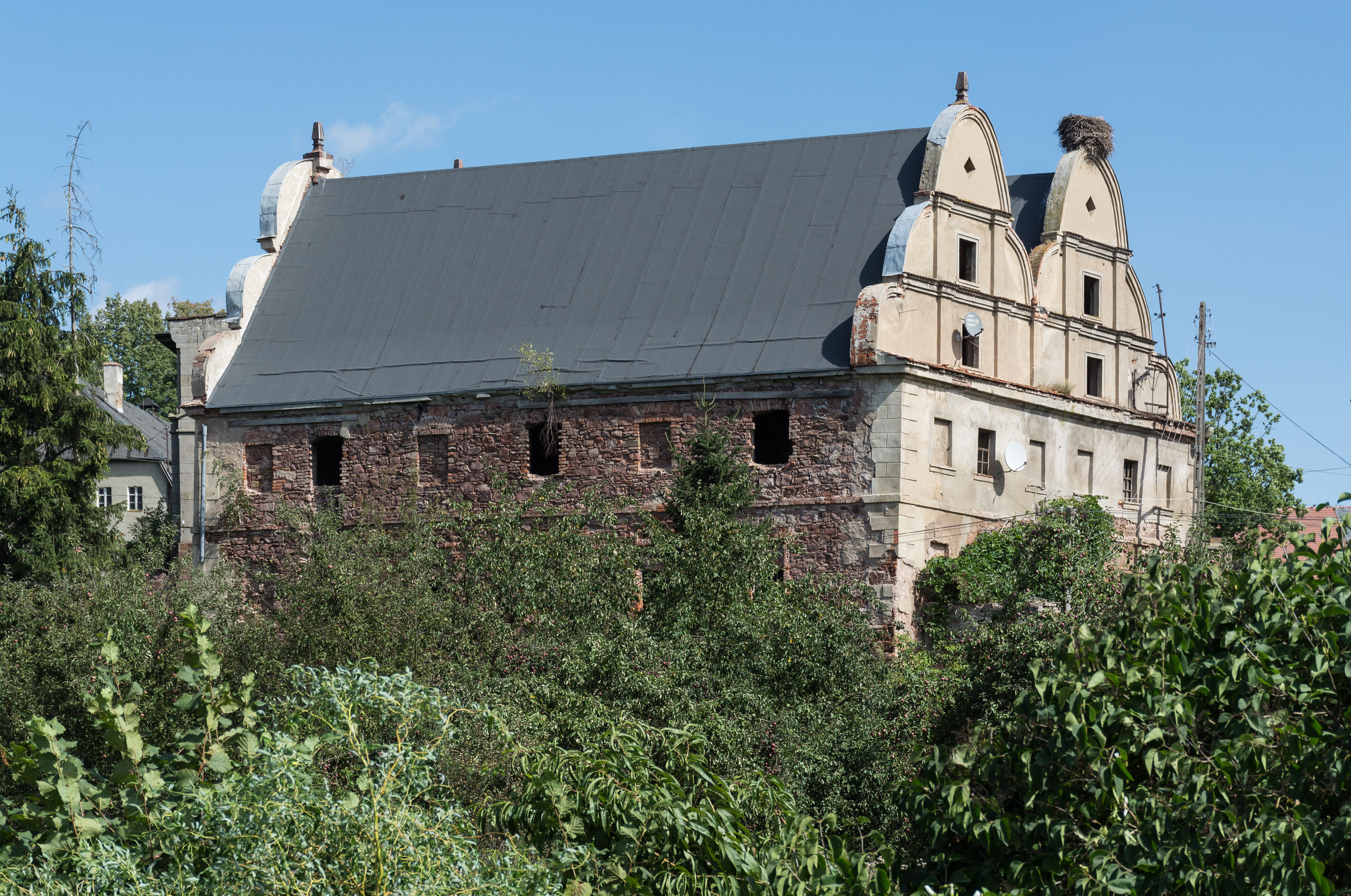 Granary in Sarny palace complex